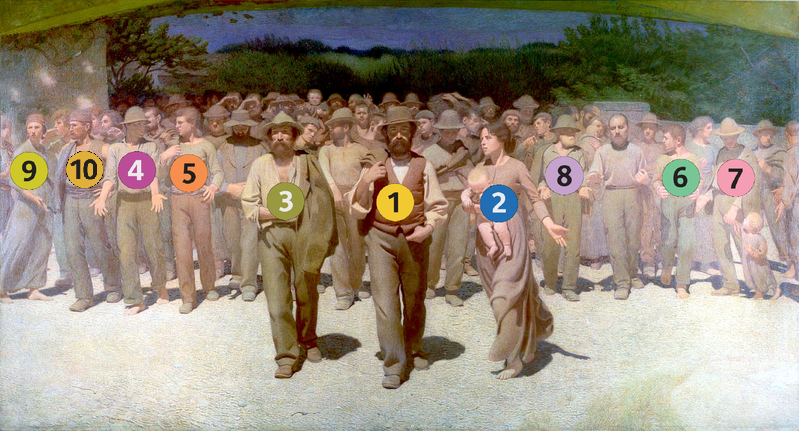 Quarto Stato